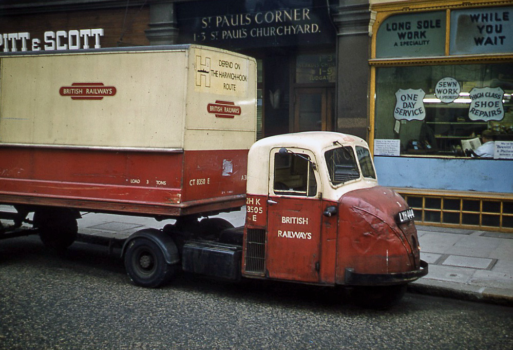 London, 1962. Finding this 35mm Kodachrome slide that I took with a Fujica during an October visit to London triggers memory of being interested in the small tractor and the large trailer. I note from the photo that it was parked at St. Pauls Corner and St. Pauls Churchyard. Truck is a Scammell Scarab marked "British Railways". In the background is a shop with window signs reading "High Class Shoe Repairs" "One Day Service" "Long Sole Work a Specialty" "While You Wait". The front of trailer trailer reads "H Depend on Harwich Hook route", advertising the "Sealink" British Rail ferries route from Harwich, Essex to The Hook, Netherlands.